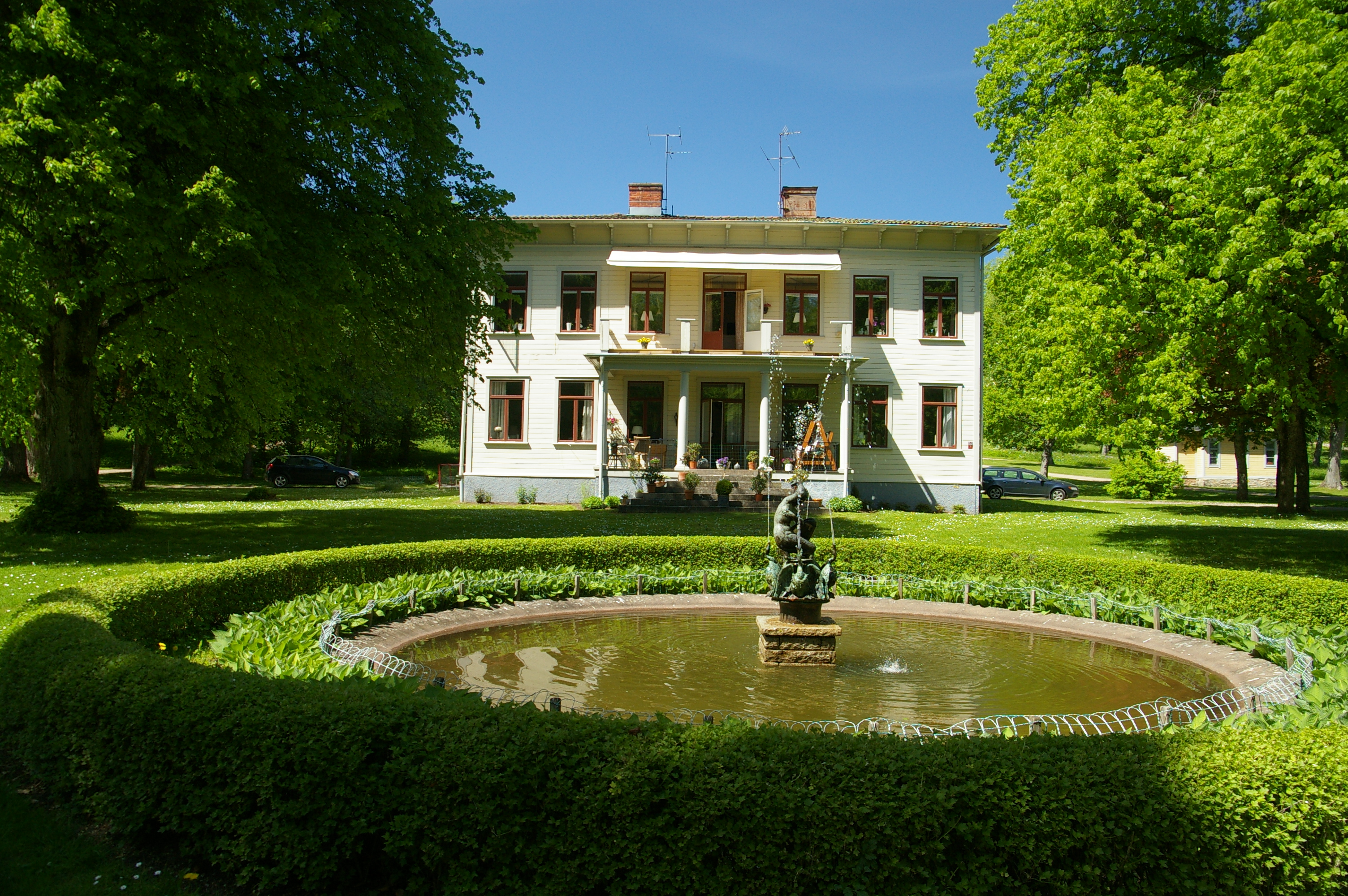 Mössebergsparken (swedish: Mösseberg park) in Falköping, Västergötland, Sweden